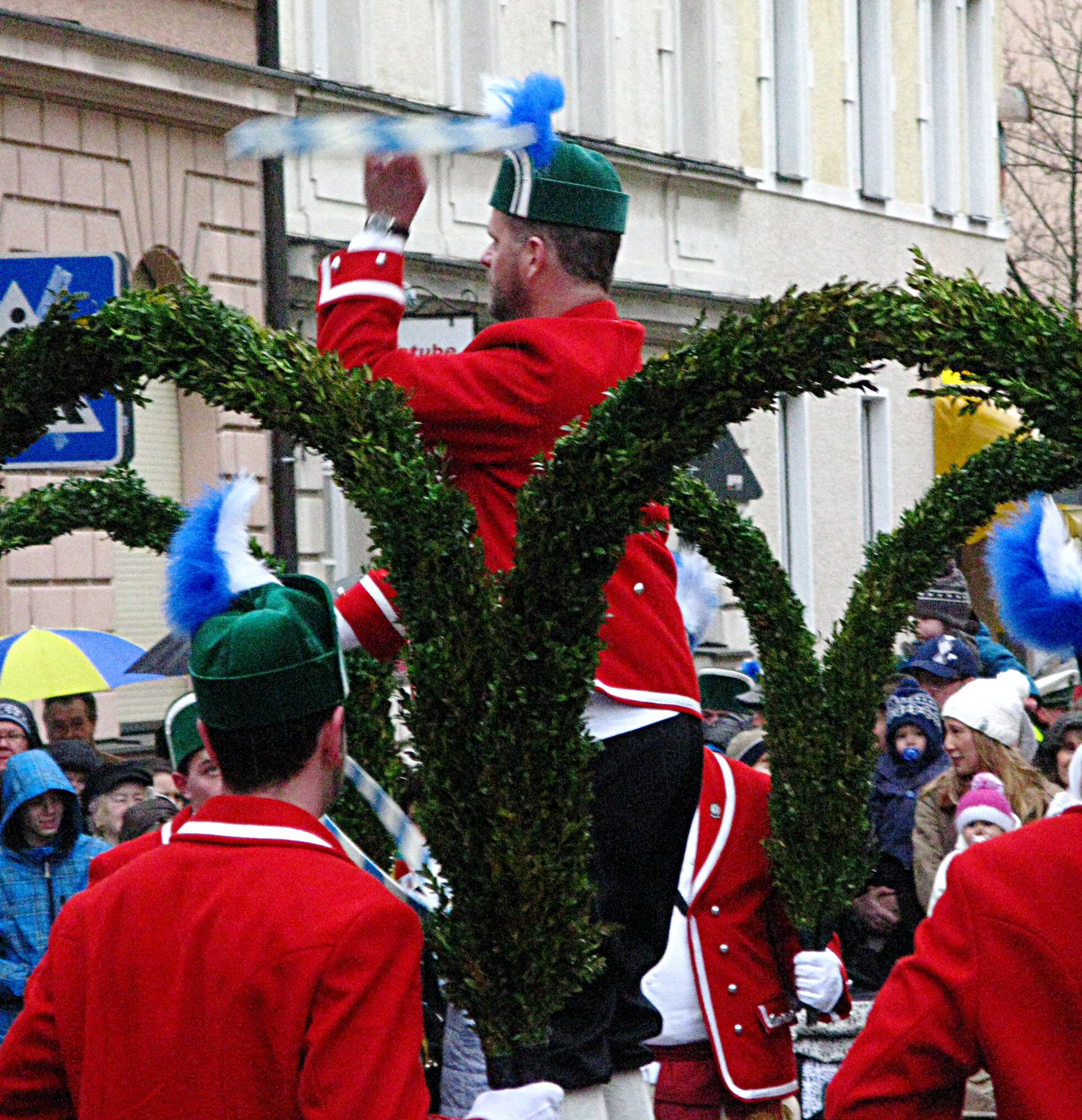 Schäfflertanz in Munich